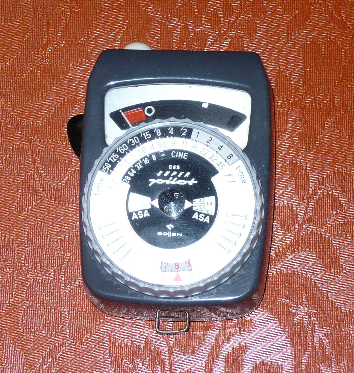 GOSSEN SUPER PILOT